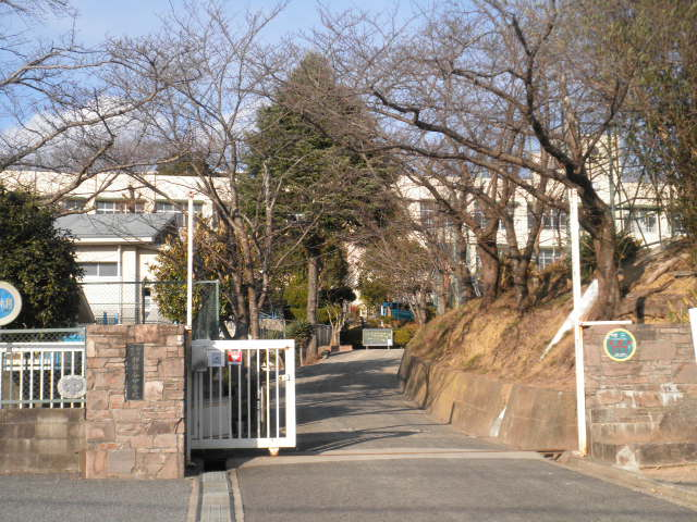 Oshibedani junior high school